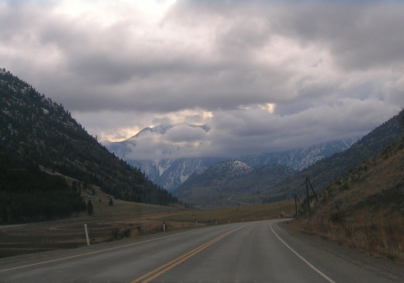 The Crownest Highway leaving the Similkameen Valley going west into the Cascade mountains, taken on 26 January 2006.